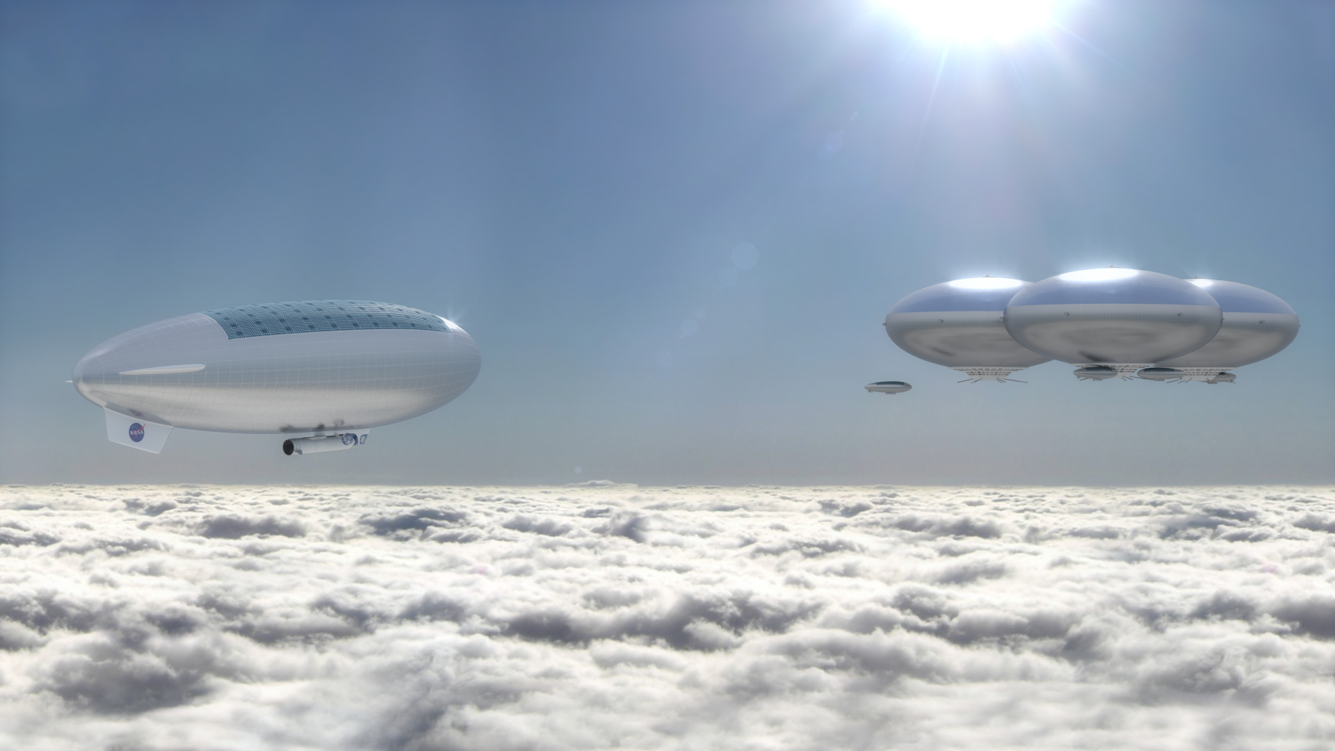 Artists rendering of a NASA Cloud City on Venus.